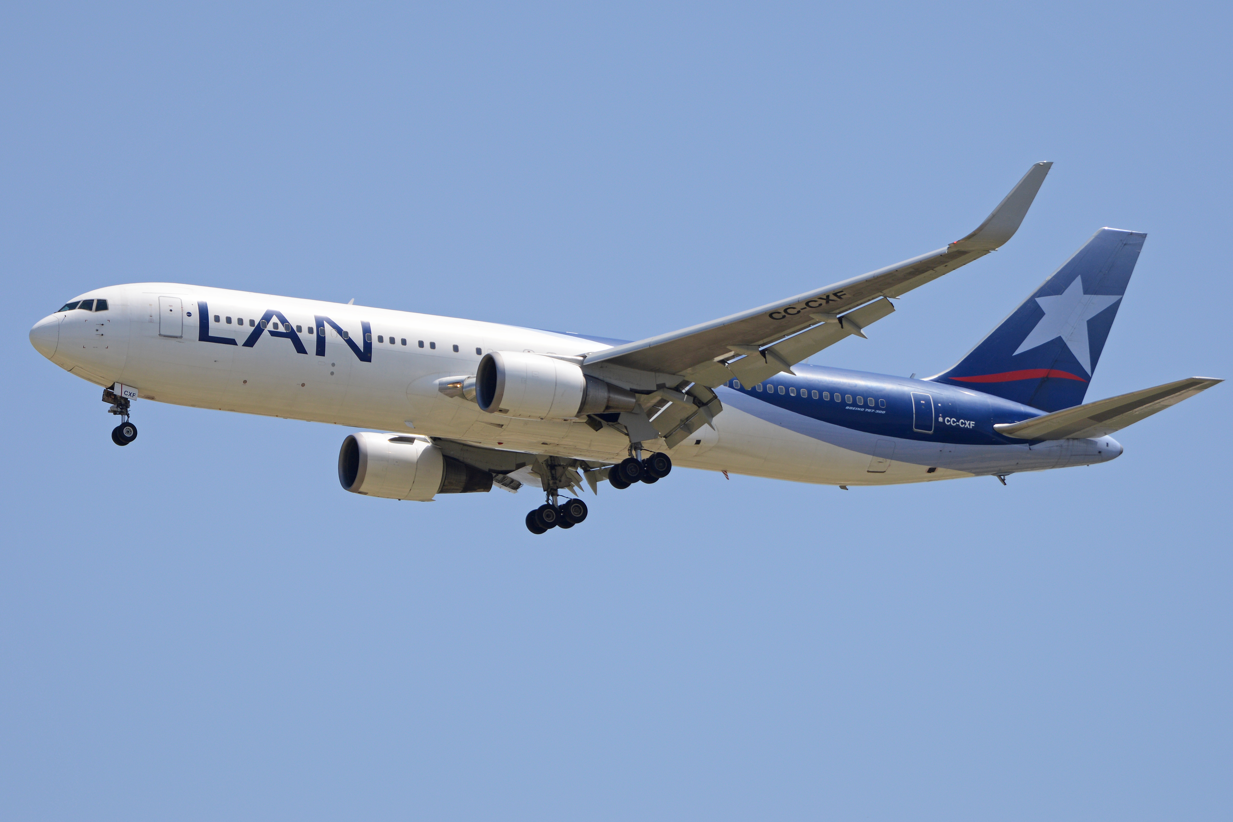 c/n 36711, l/n 970. Built 2008. Arriving on flight LPE2706 from Lima. Madrid Bajaras Airport, Spain. 21st May 2016